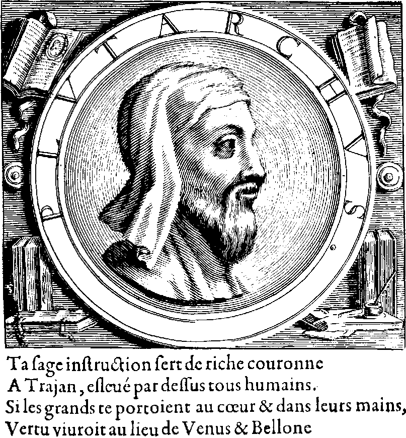 Portrait of Plutarch, Greek historian. The caption reads: “Your wise teaching served as an impressive crown Of Trajan, exalted above all men. If great men heeded you[r words] in their minds and hands [to put them to practice], Virtue would live, instead of Venus [lust] & Bellona [war].”